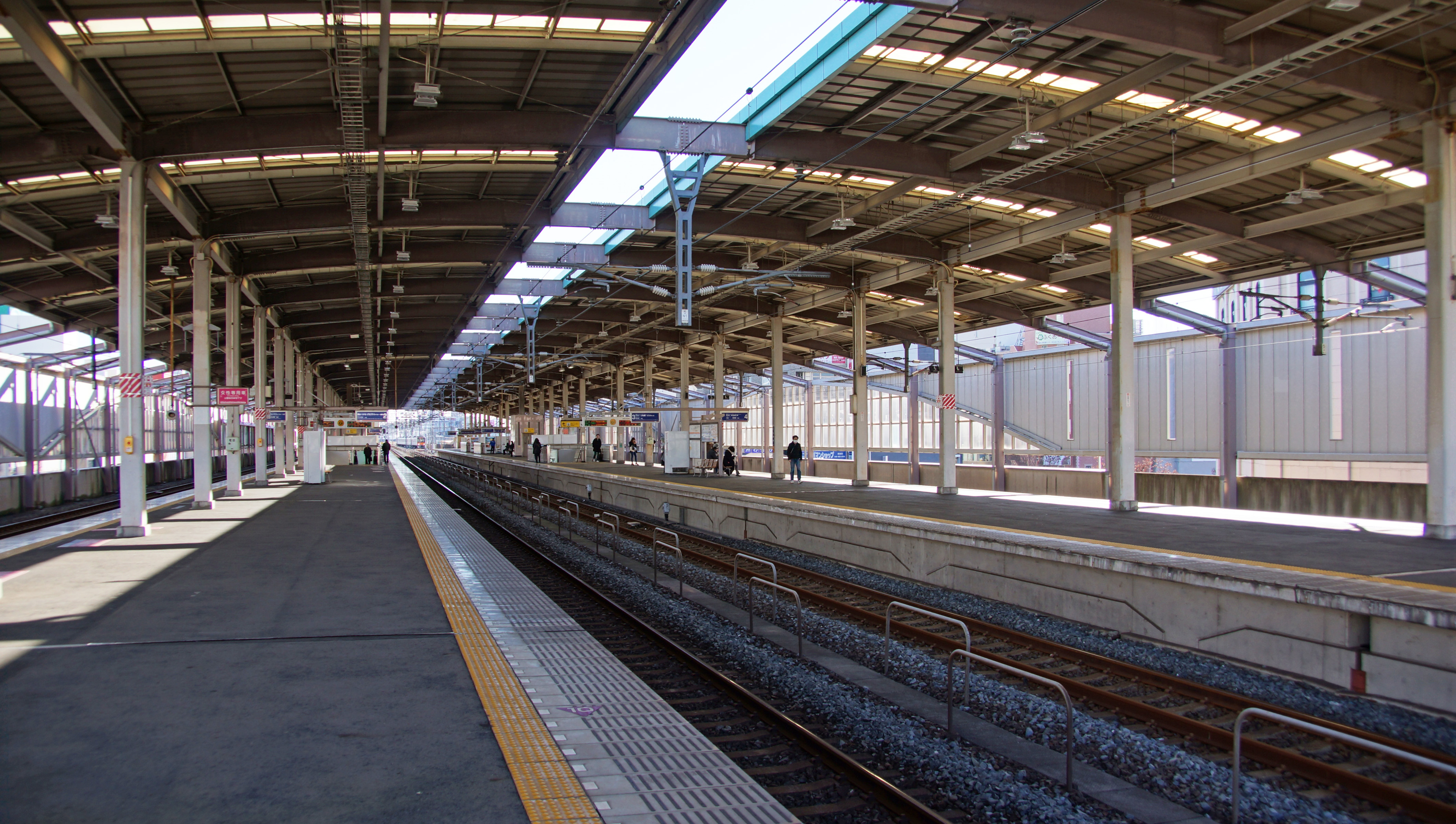 The (down) north end of platforms 1 and 2 at Koshigaya Station on the Tobu Skytree Line in Saitama Prefecture, Japan